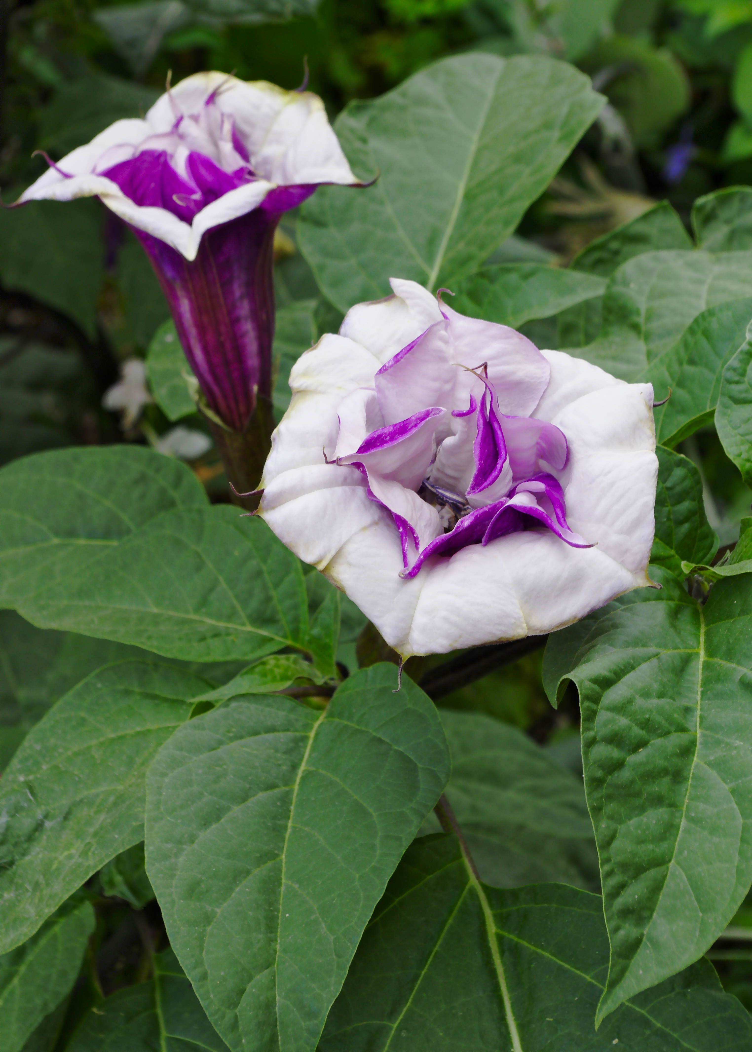 Datura(Datura metel) in a public garden, France.